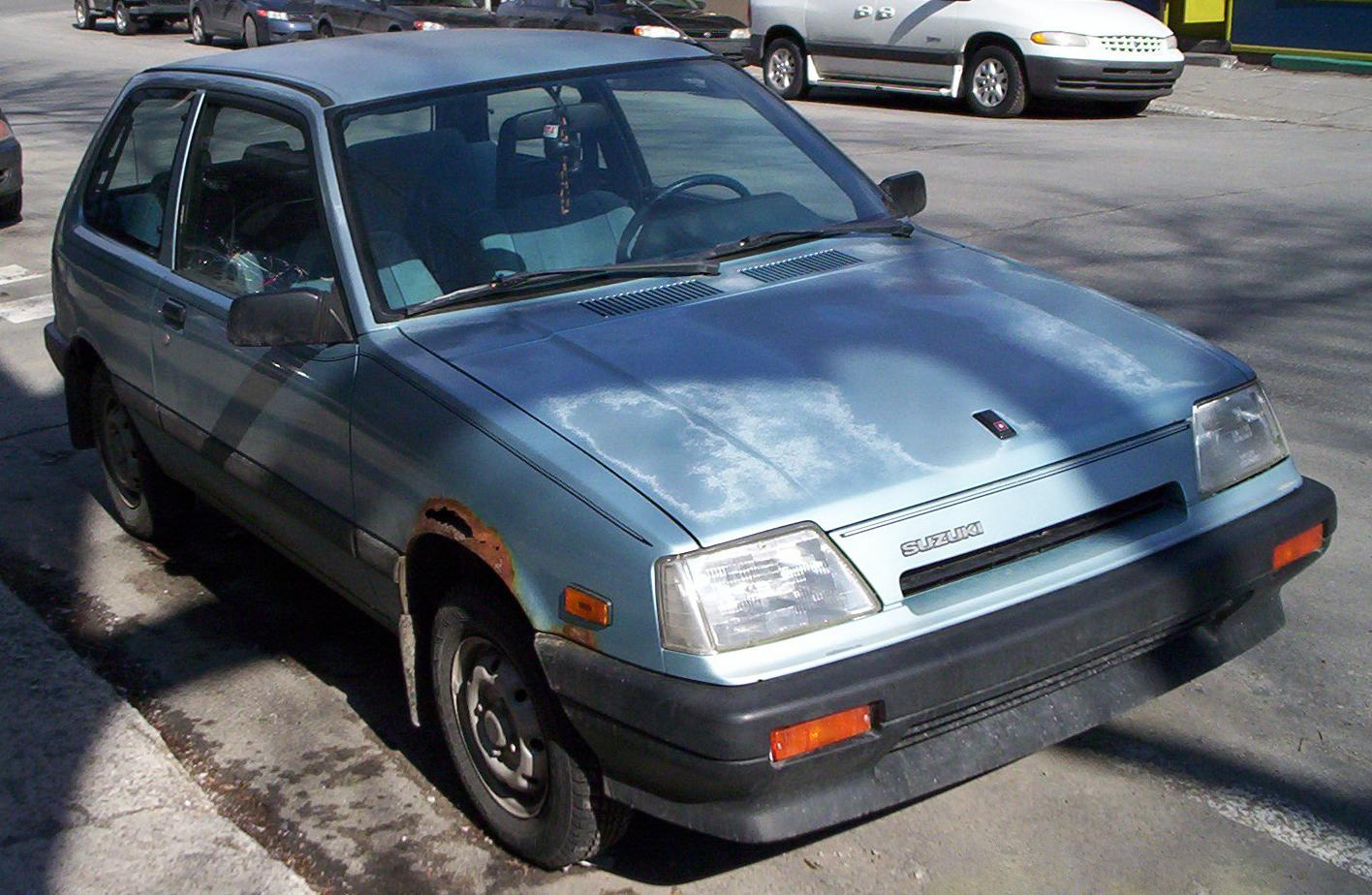 1987-1988 Suzuki Forsa photographed in Montreal, Quebec, Canada.